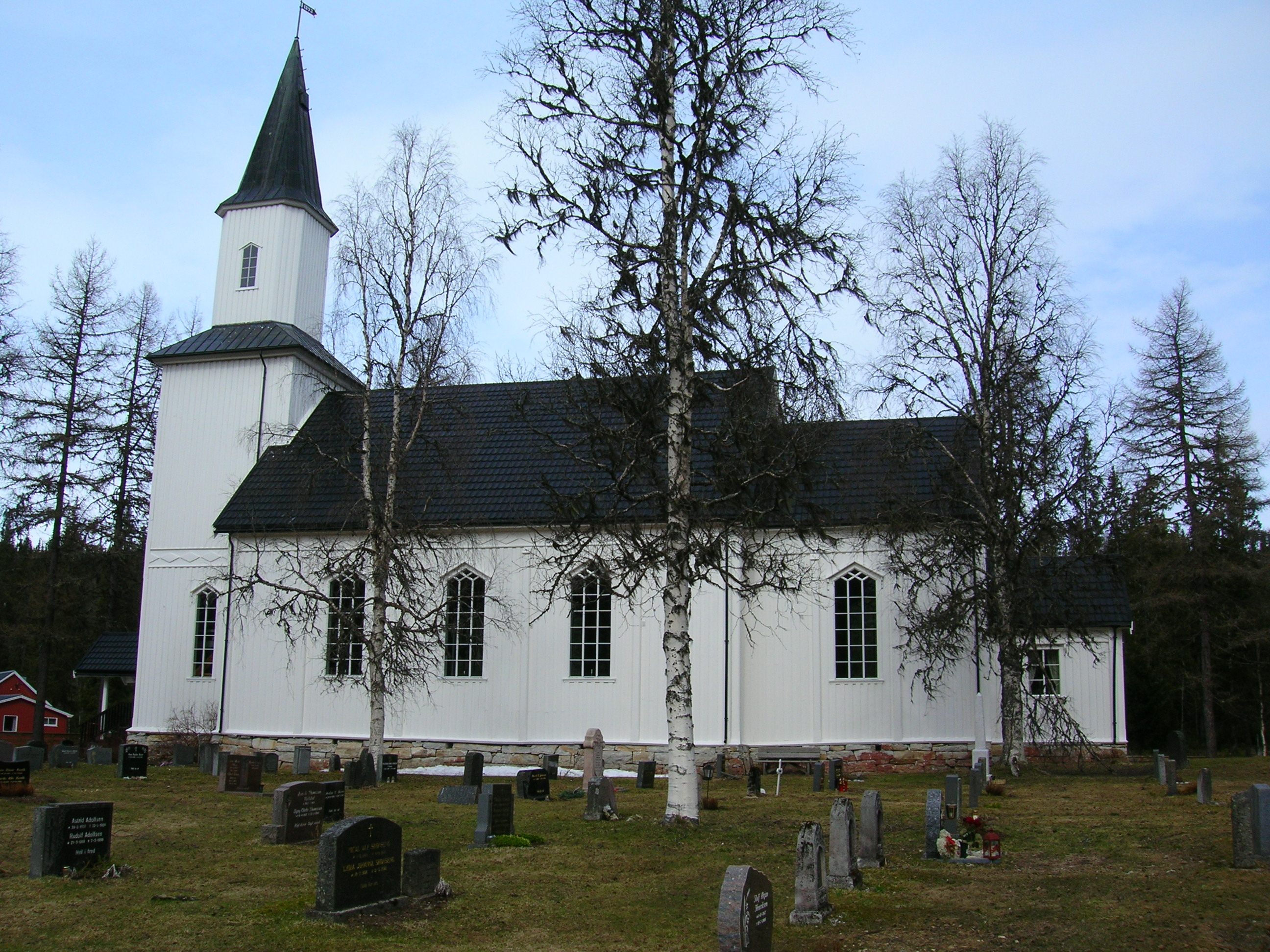 Nevernes church, Rana municipality, Nordland, Norway, Photo May 10, 2007 with a Nikon Coolpix 5600 5,1 Megapixel camera.